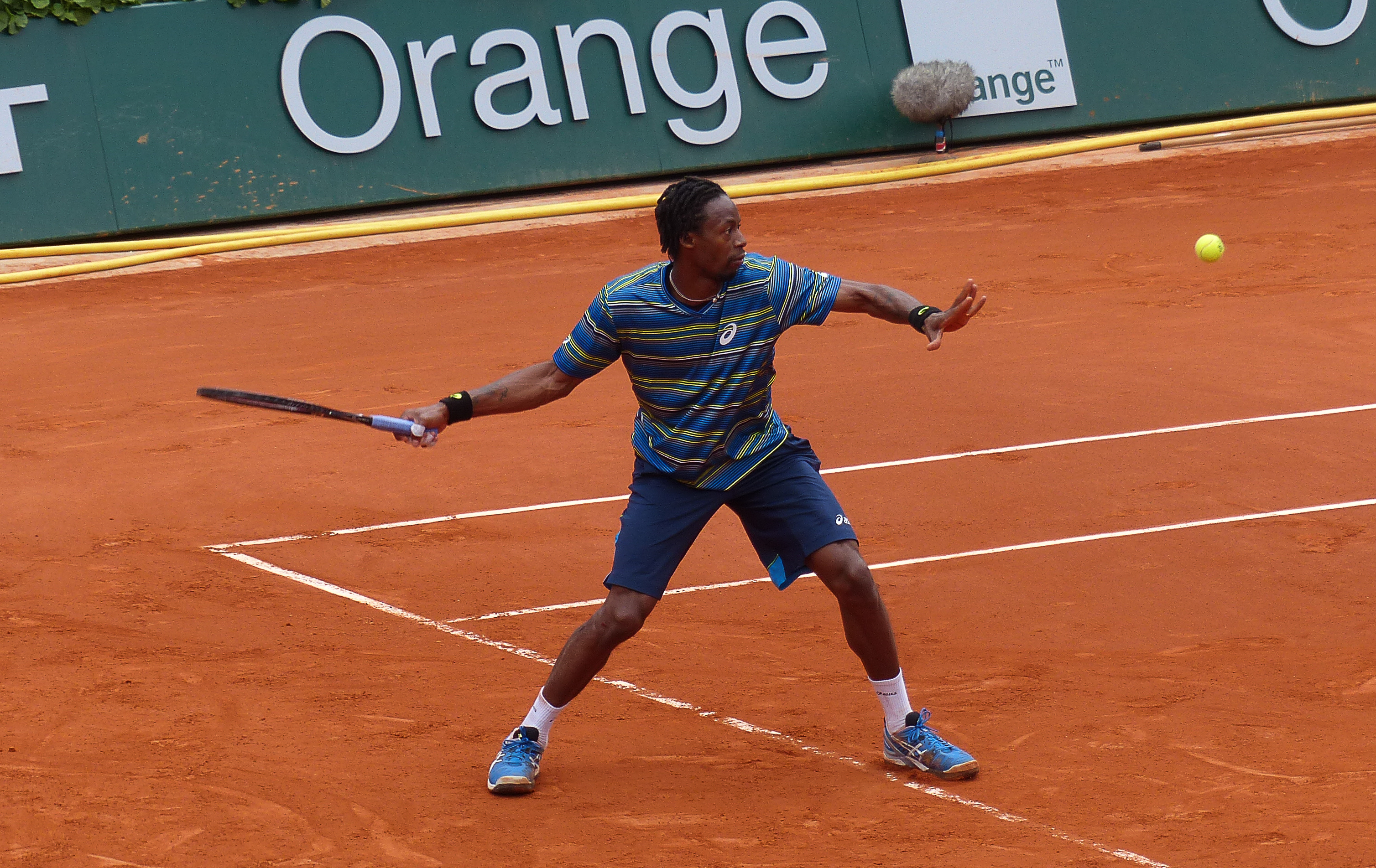 2013 French Open - Gaël Monfils vs Ernests Gulbis (2nd round)